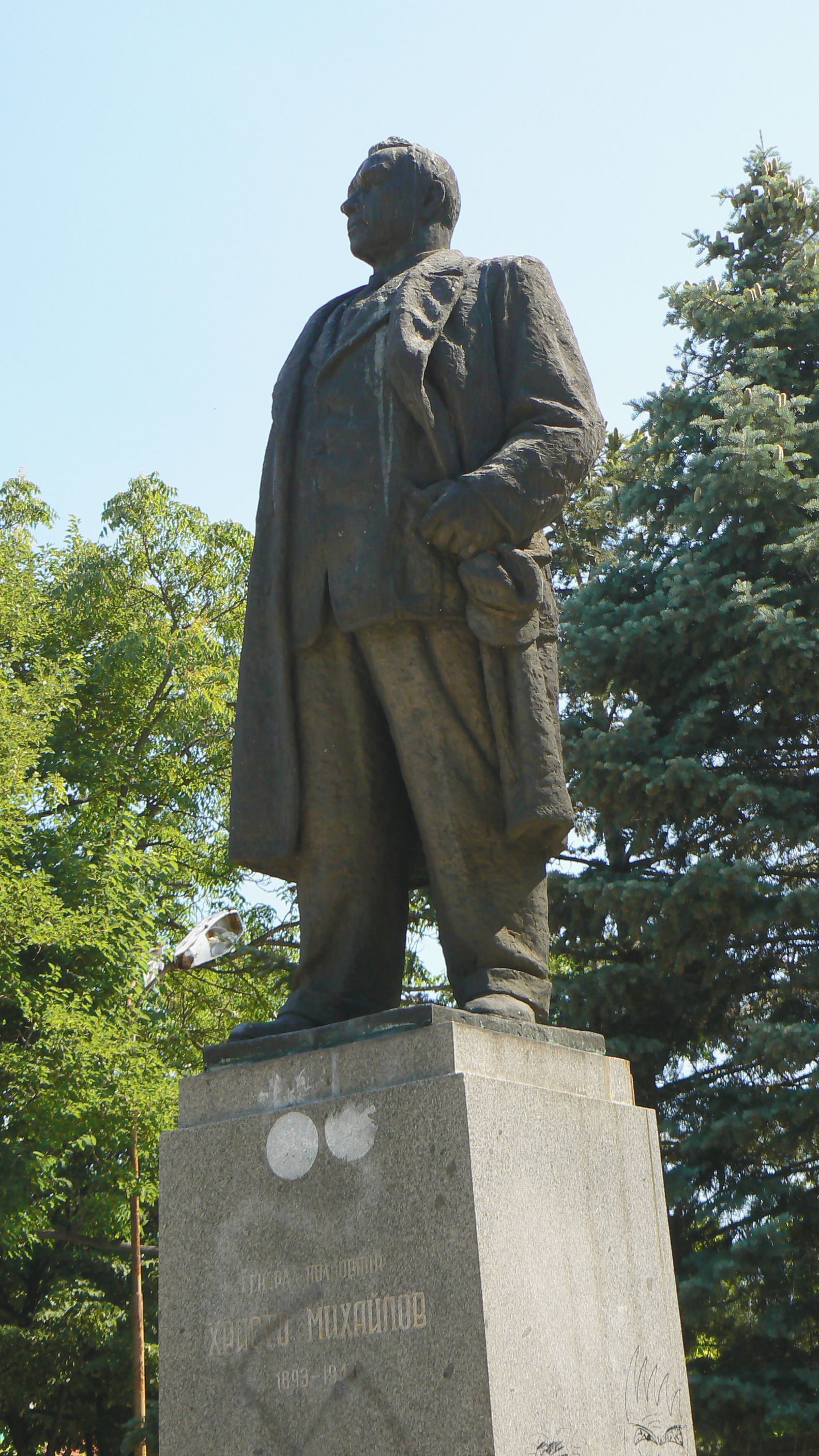 Monument of Hristo Mihaylov in Montana, Bulgaria